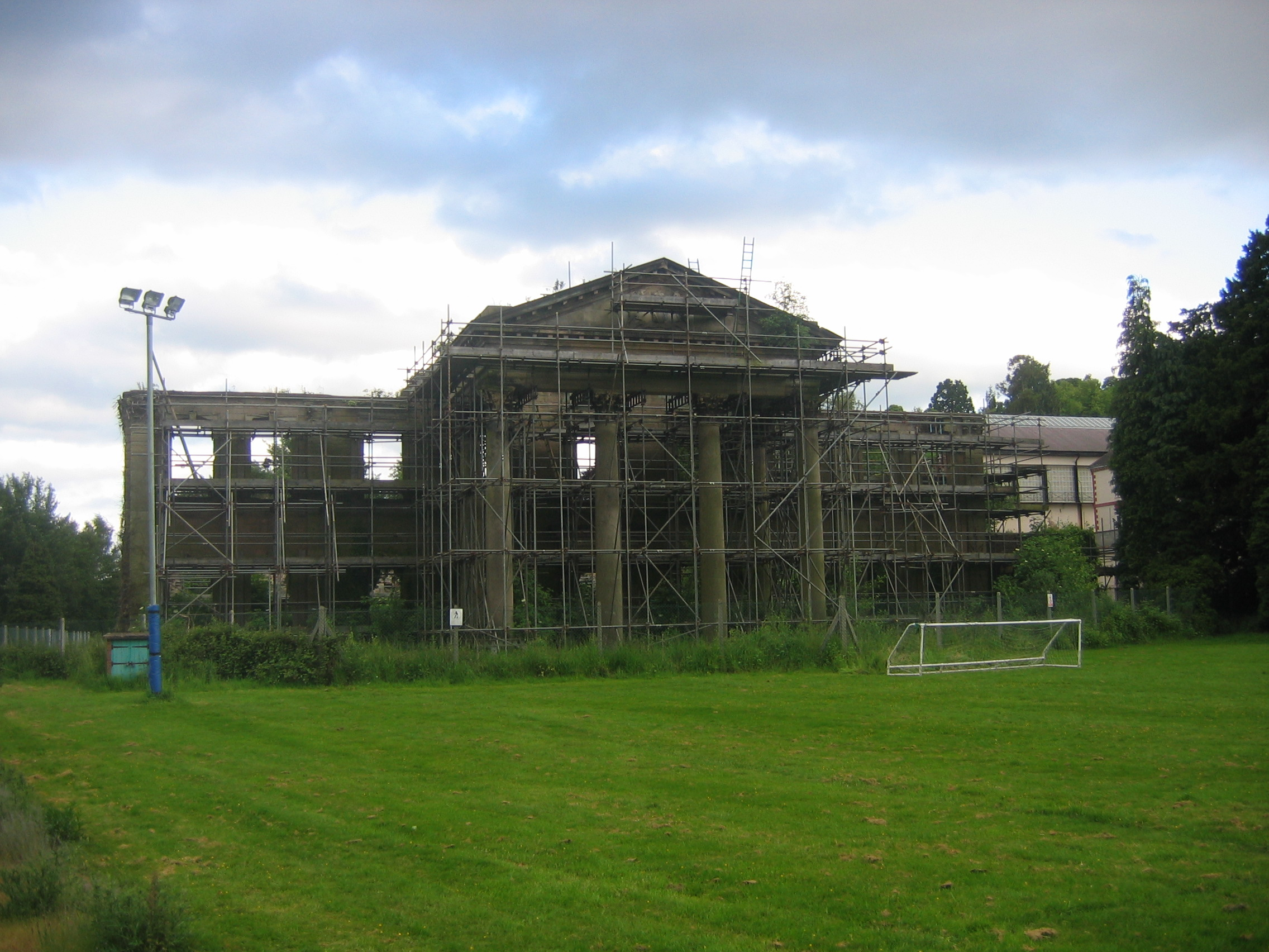 Ruin at Hewell Grange